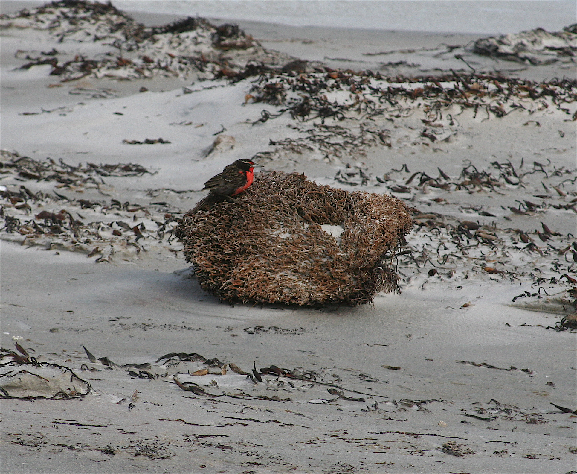 Long-tailed Meadowlark on Berthas Beech, Nr Mount Pleasant Complex, East Falkland.